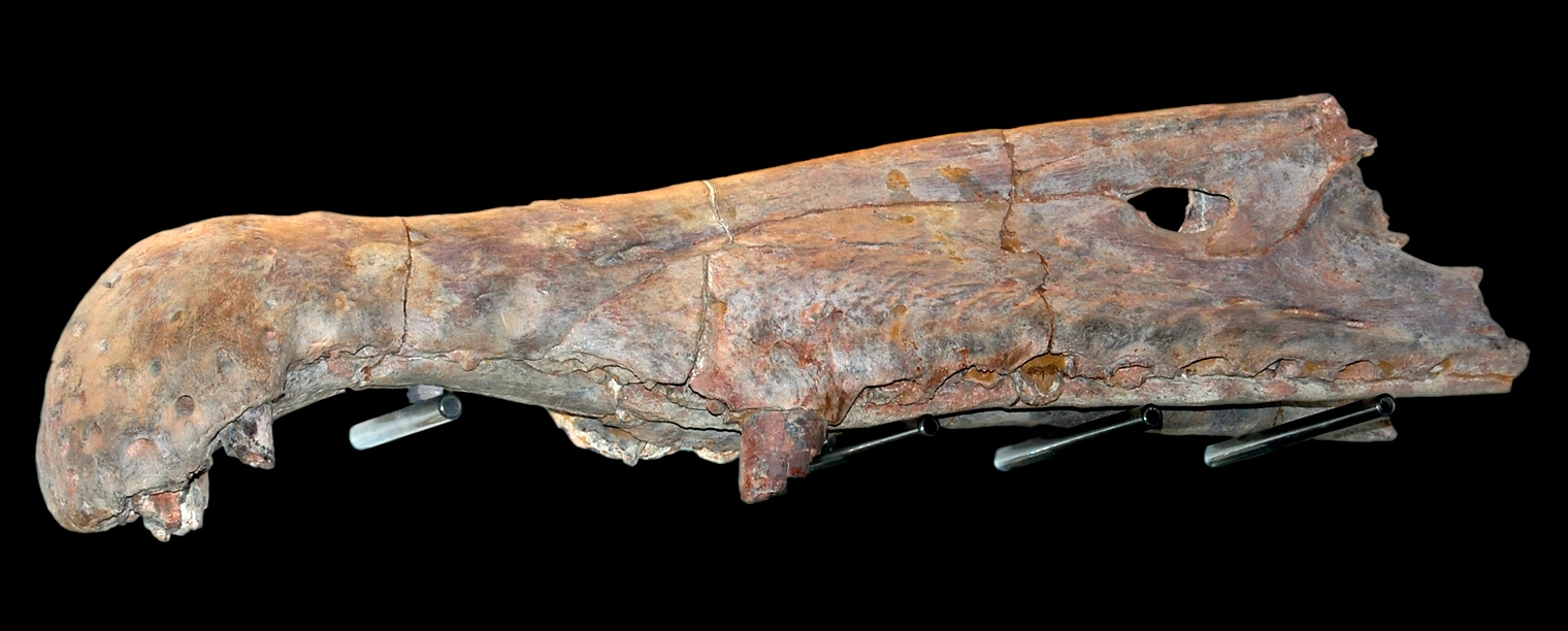 Snout of Spinosaurus (specimen MSNM V4047) at the Museo civico di storia naturale Milano